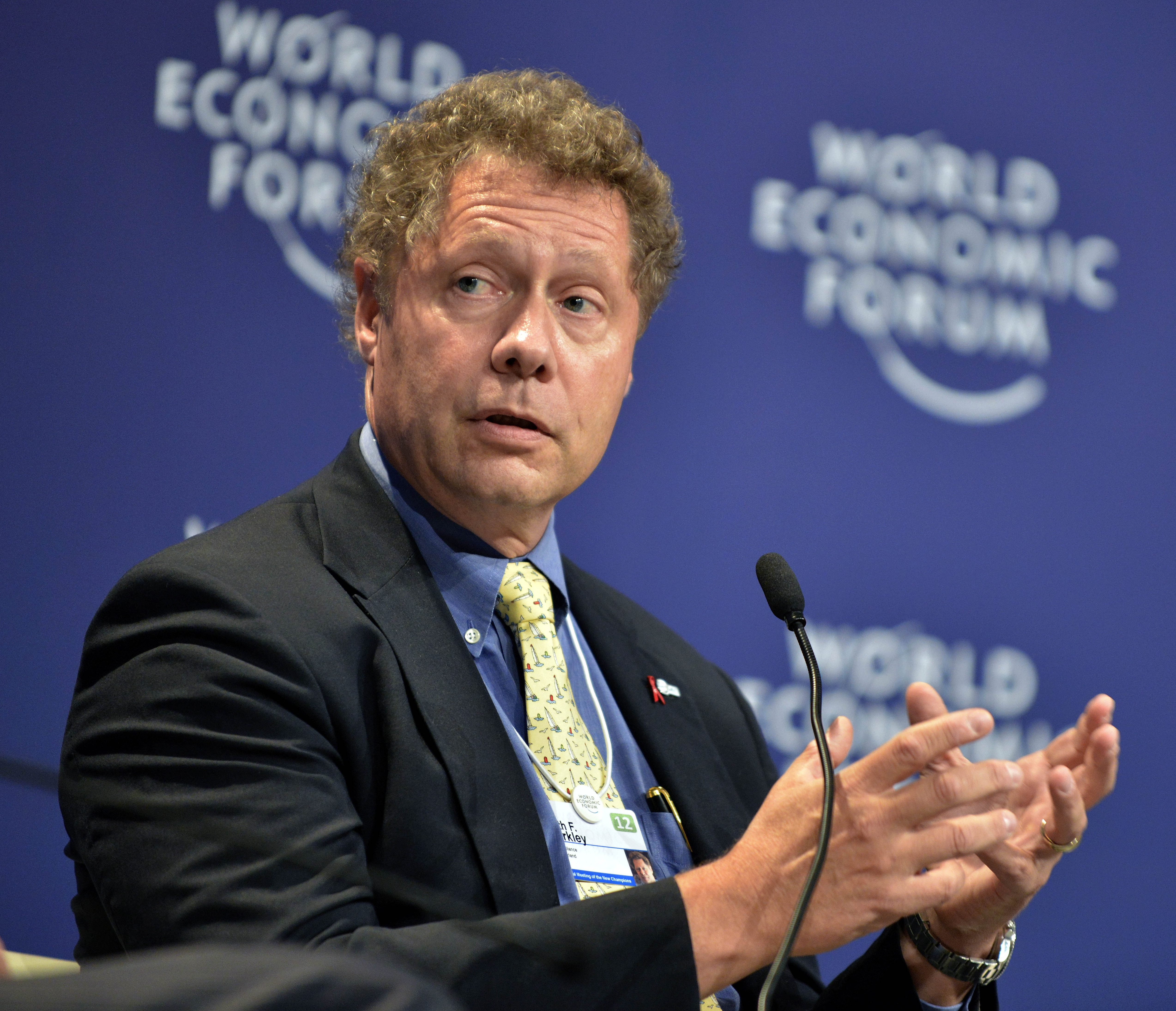 Seth F. Berkley, Chief Executive Officer, GAVI Alliance, Switzerland at the Annual Meeting of the New Champions in Tianjin, China 2012